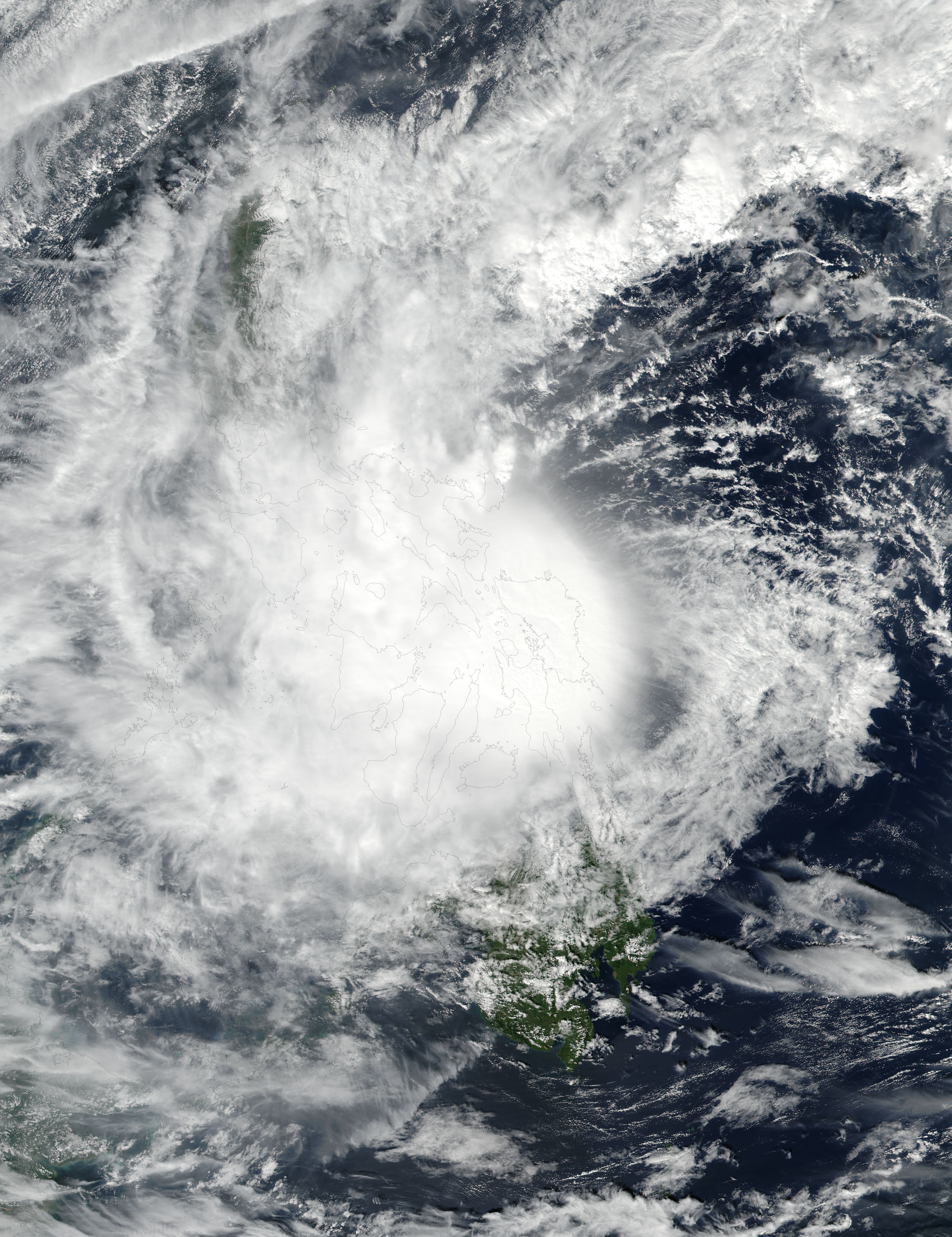 Tropical Storm Kai-tak (32W) over the Philippines